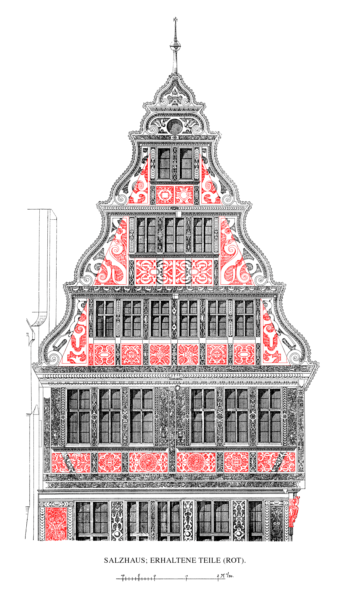 Frankfurt on the Main: Preserved parts of the carved cladding of the Salt House (highlighted in red)